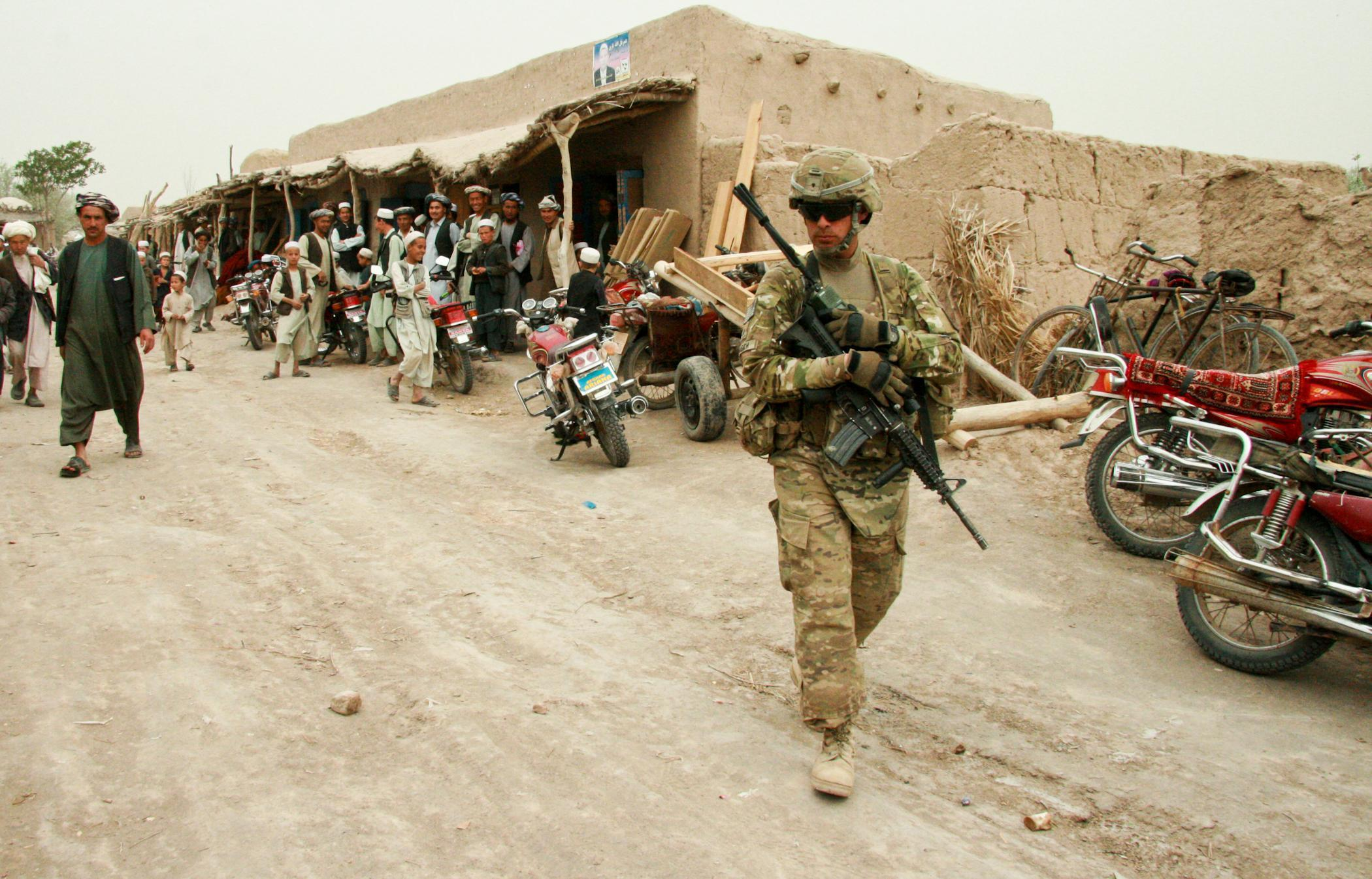 U.S. Army Sgt. Jeffery Harisch, a Brainerd, Minn., native, now a team leader with 4th Platoon, C Company, 40th Engineer Battalion, 170th Infantry Brigade Combat Team, leaves the bizarre at Shor Tepah in northern Balkh province, Afghanistan, during a patrol, April 14.